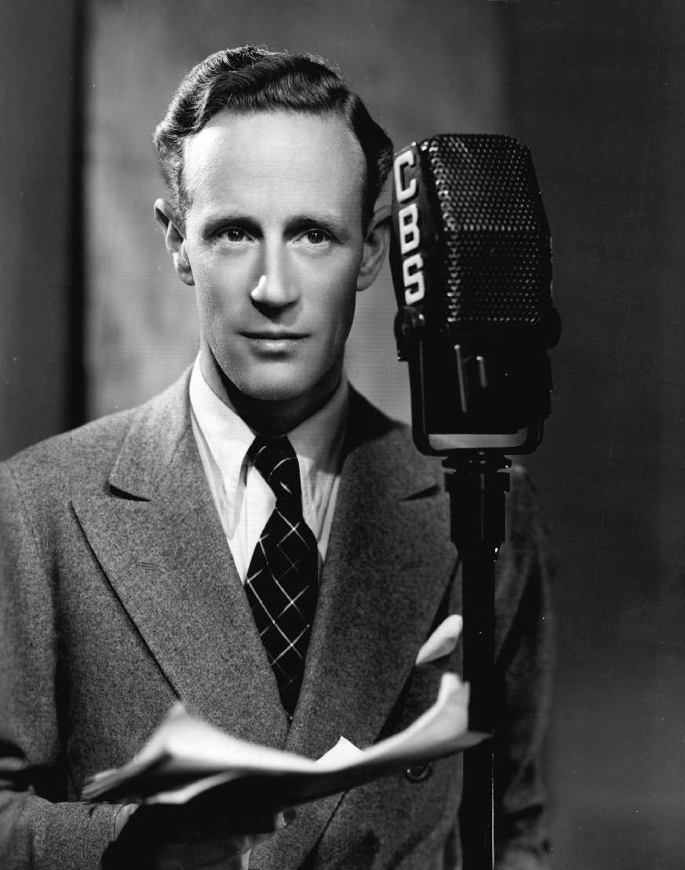 Photo of Leslie Howard as a guest on Eddie Cantor's CBS radio program. At the time, Howard was on Broadway with Hamlet. For the radio show, Howard and Cantor switched roles; Howard sang "If You Knew Susie", which was strongly identified with Cantor, and Cantor did a scene from Hamlet.